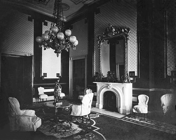 White House interior, Old Green Room (1st interior photo?) President's study